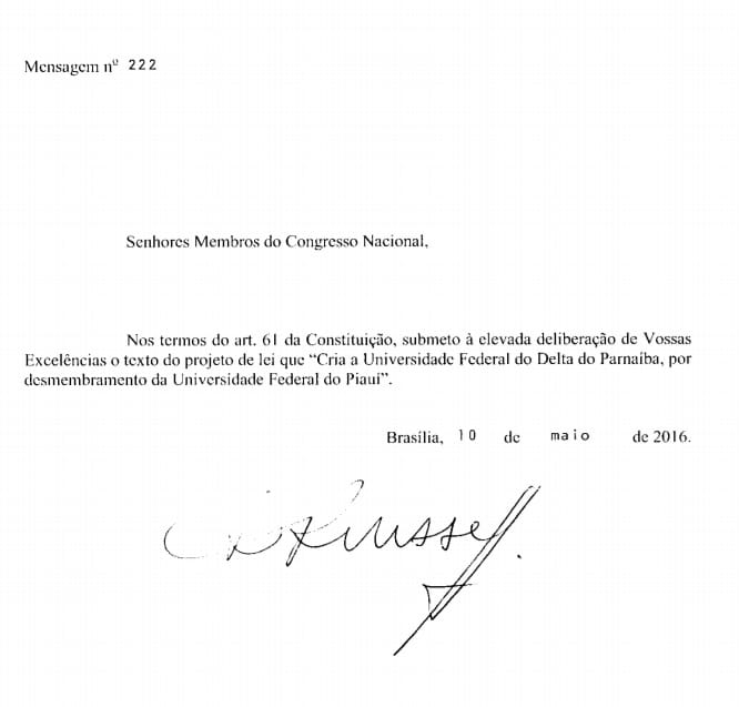 Universidade Federal do Delta do Parnaíba